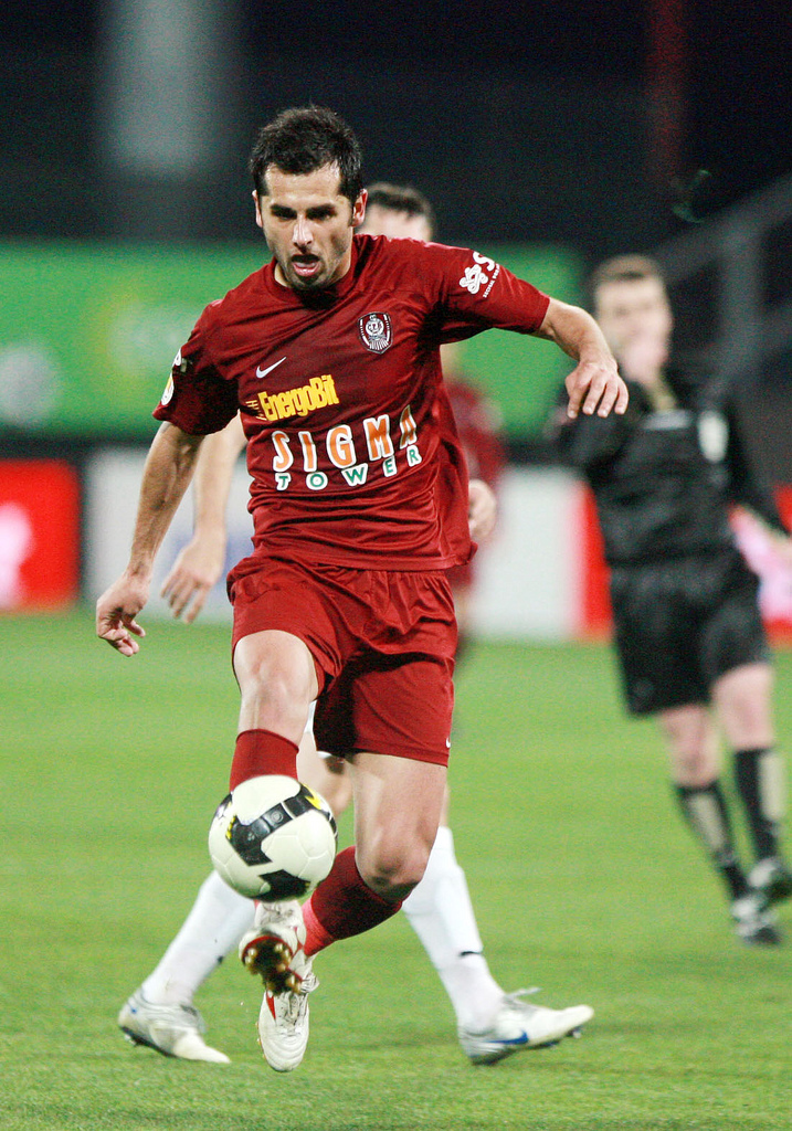 Nicolae Dica at CFR Cluj in 2010.